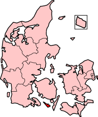 Ærø, Denmark Created from other Wikipedia maps of Denmark